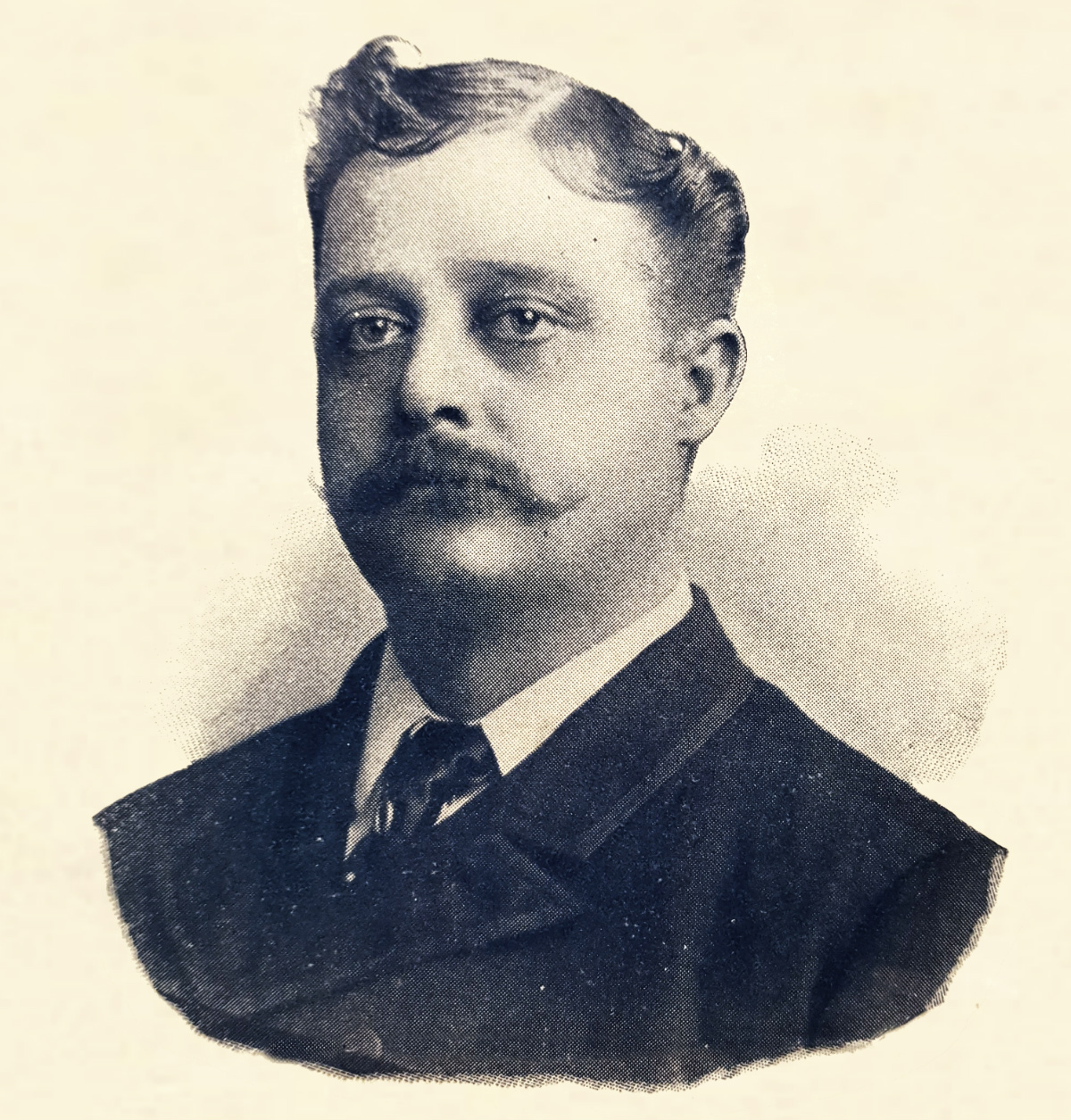 Photo of recording pioneer Silas Leachman included in advertisement for Chicago Talking Machine Company circa 1895.